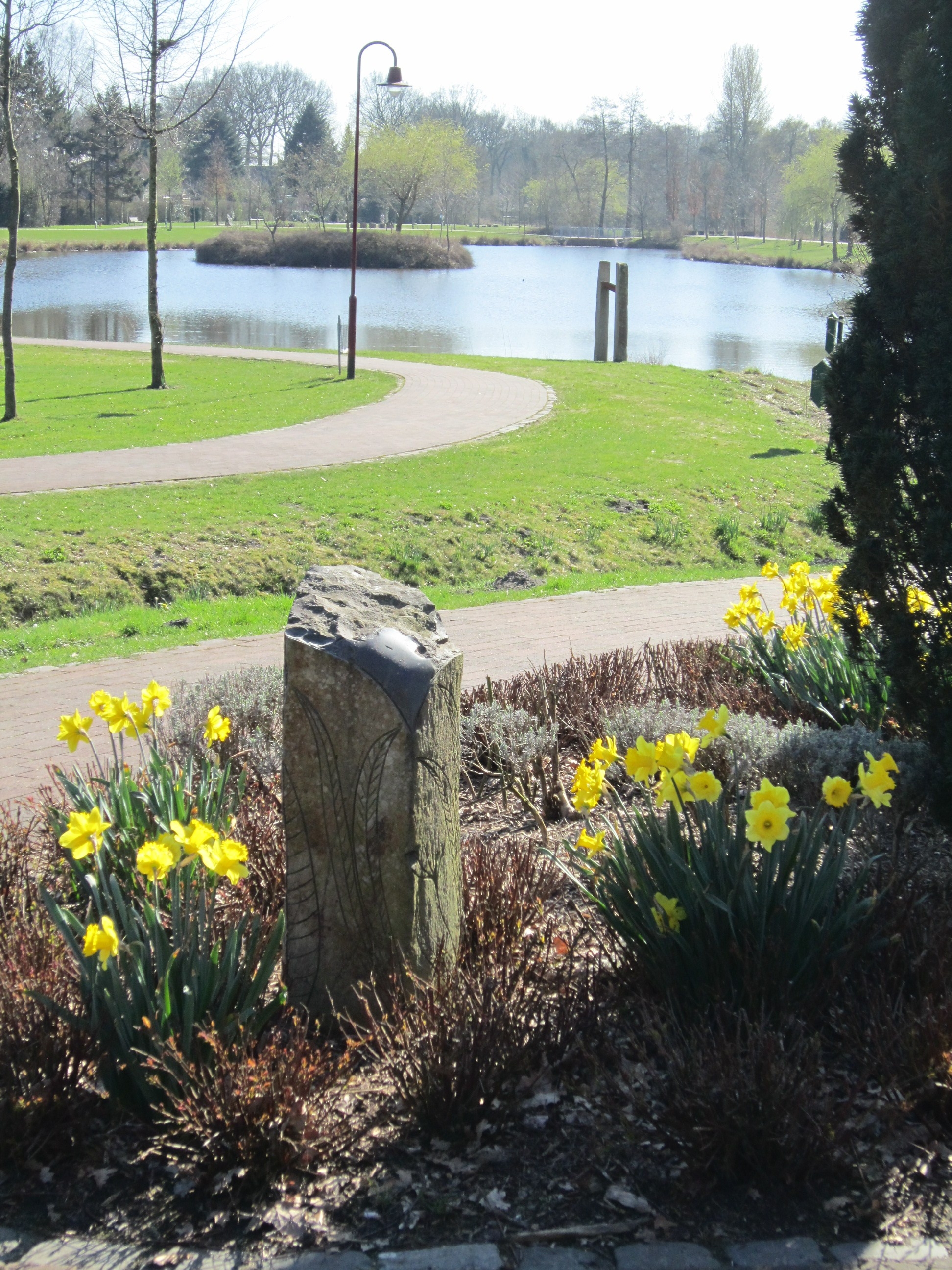 Village park in Lastrup (Lower Saxony)